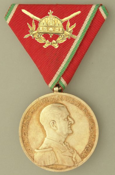 Hungarian officier Medal for Bravery